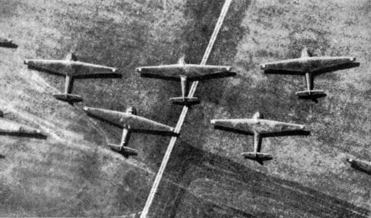 Aerial reconnaissance photo of German Messerschmitt Me 321 Gigant gliders.